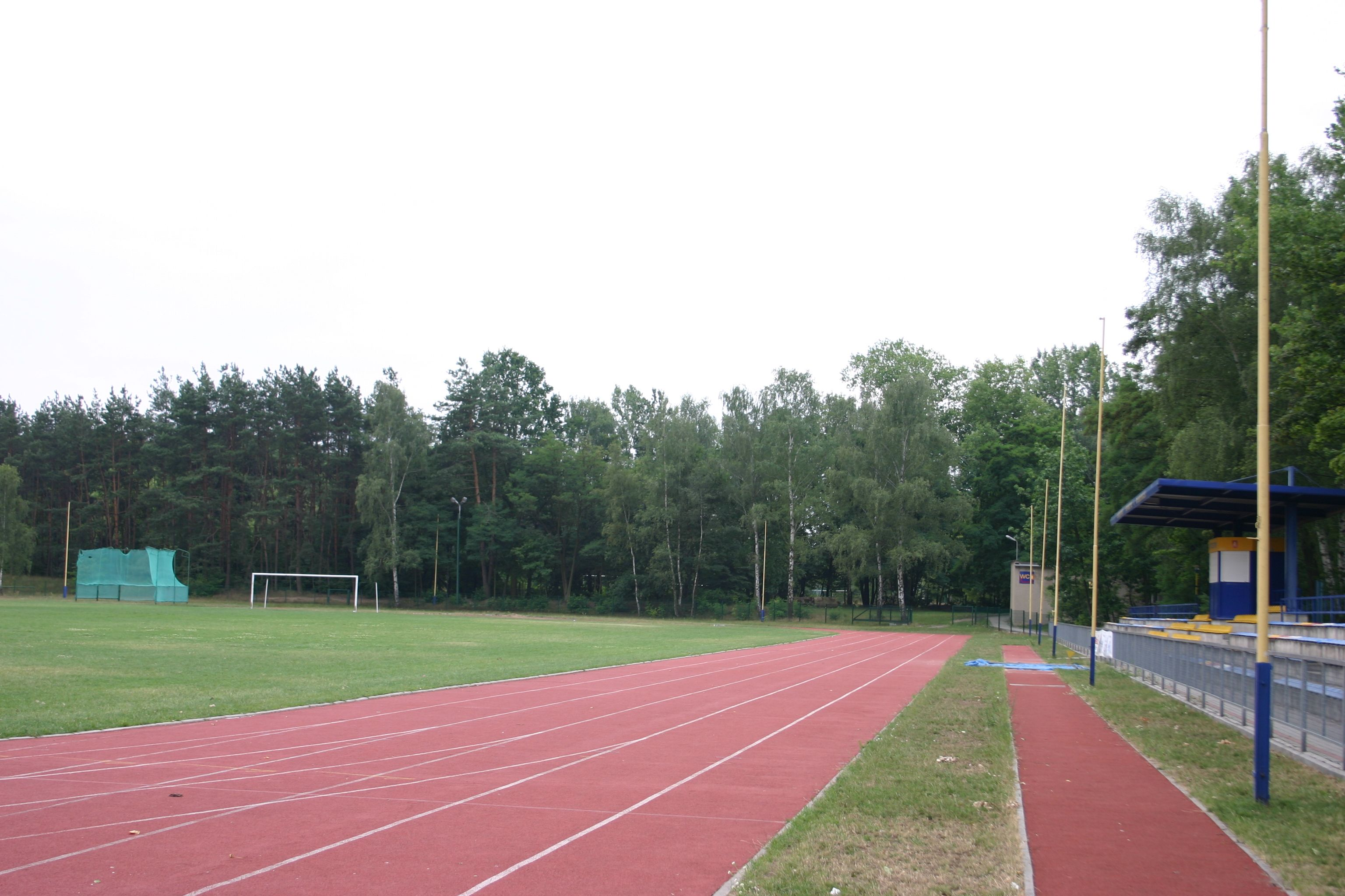 Stadium in Ostrzeszów